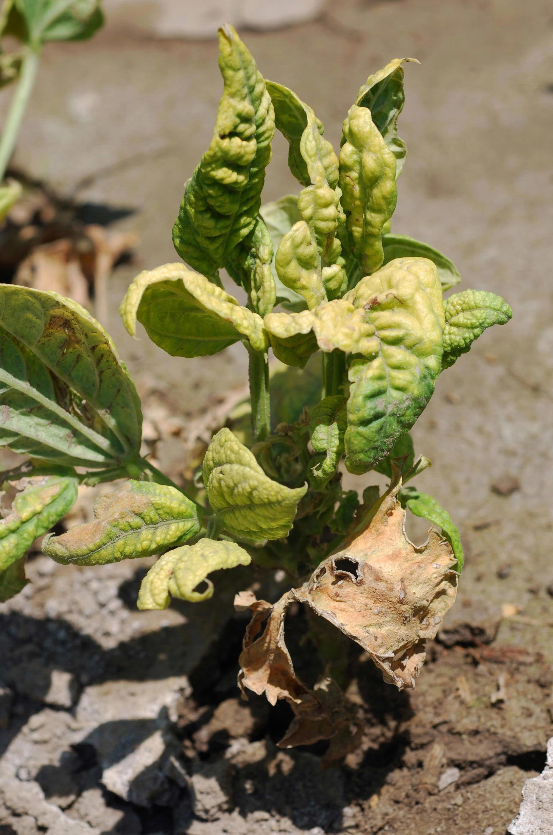 Phaseolus vulgaris with beet curly top virus, Colorado, USA